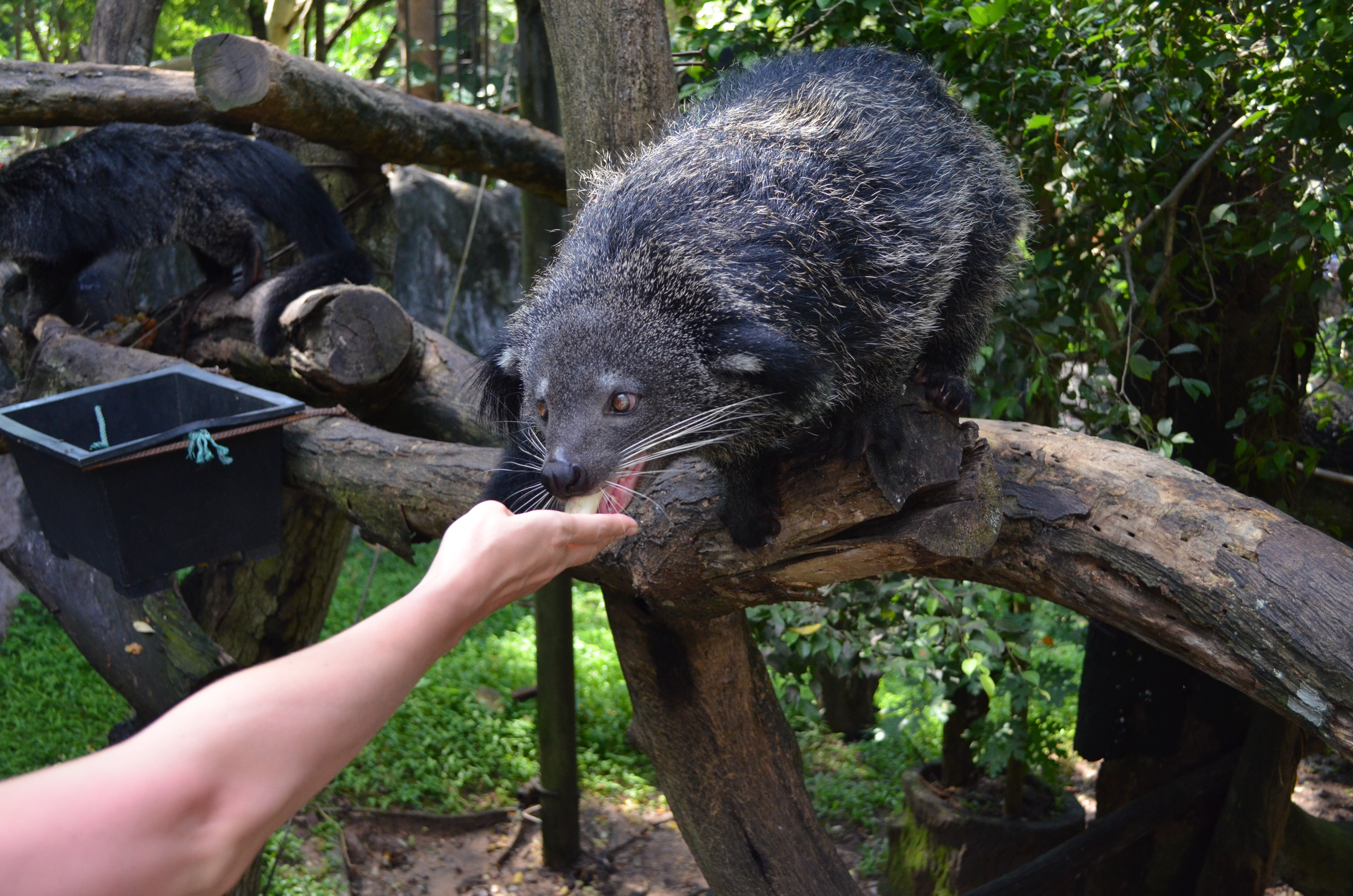 Binturong